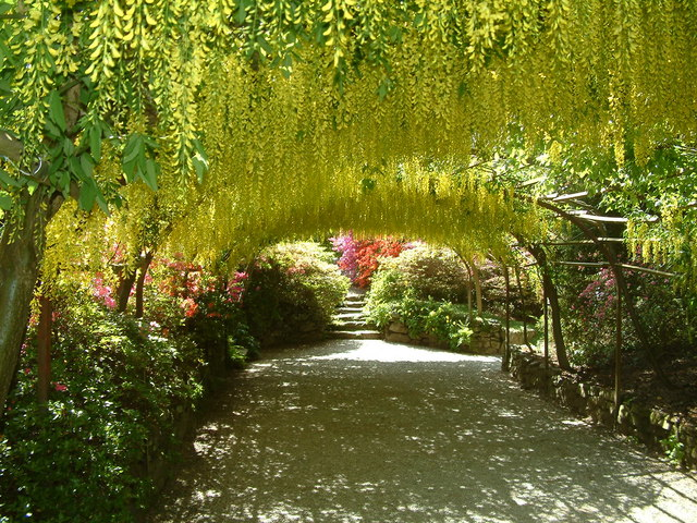 The Laburnum Arch at Bodnant Garden. The National Trust provides magnificent opportunities for photographers. This is the Laburnum Arch at Bodnant Garden.